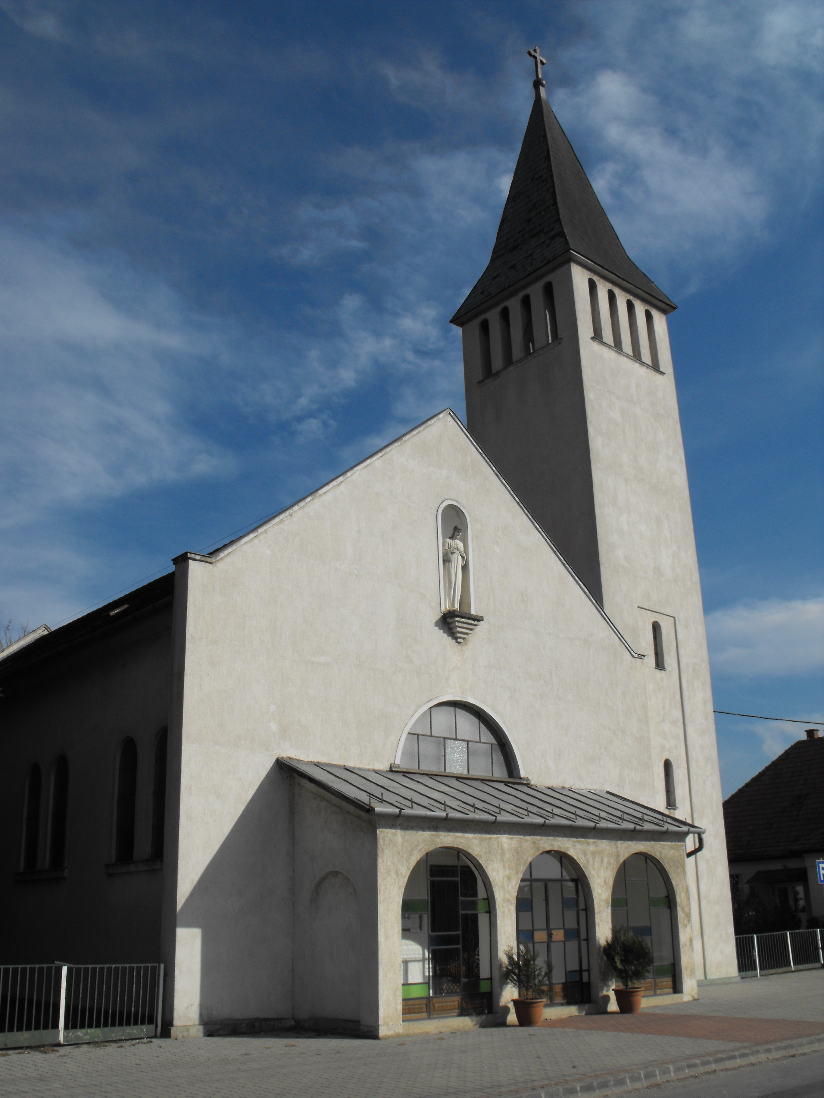 Church of Dunasziget, Hungary.